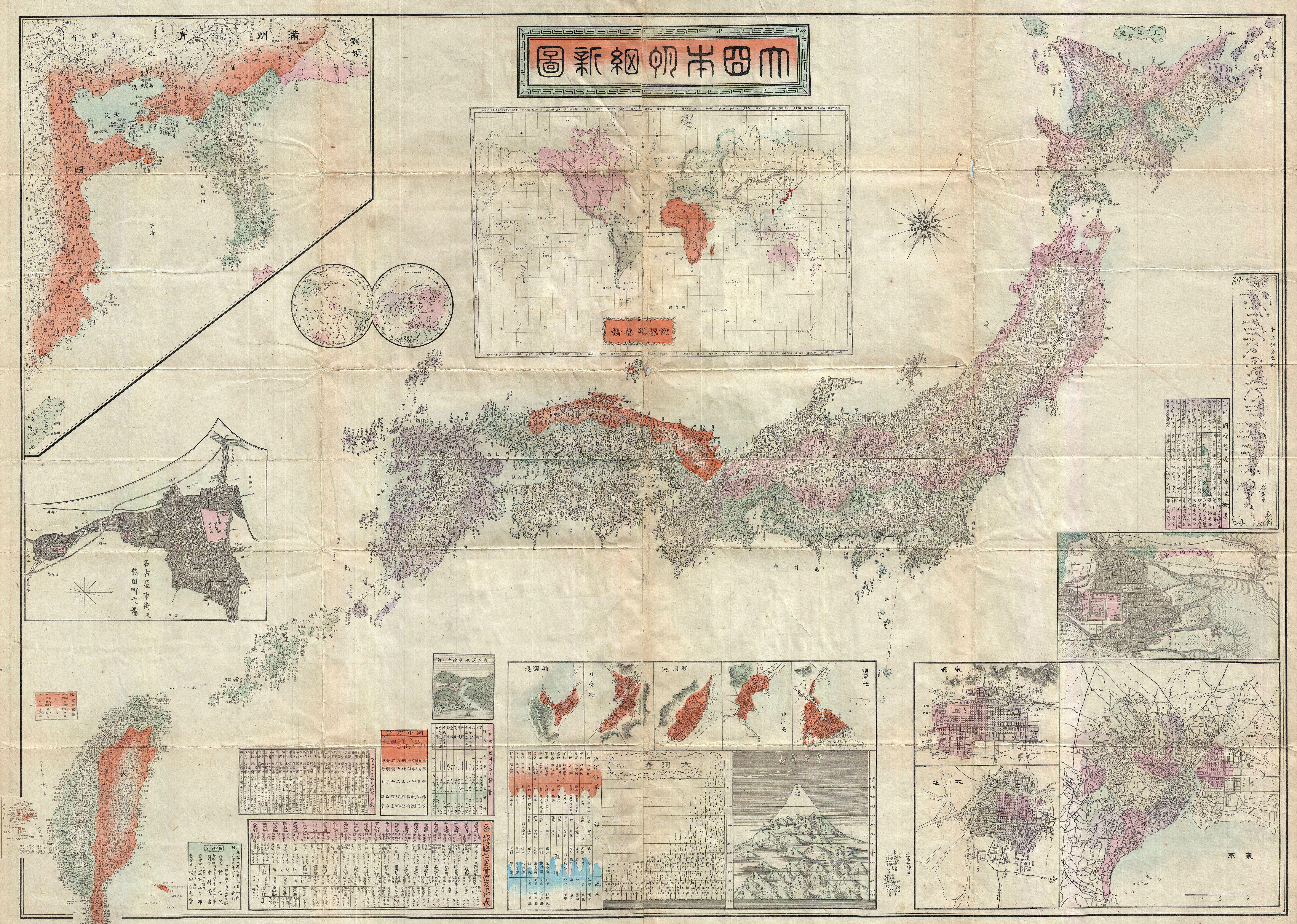 An extremely impressive large scale map of the Japanese Empire dating to 1895 or Meiji 28. This map was issued shortly after the 1895 Japanese invasion of Taiwan and is consequently one of the first Japanese maps to include Taiwan and Korea as provinces of Imperial Japan. The map also includes various insets focusing on various Japanese cities and important islands. At the base of the map there are various statistical charts as well as a comparative mountains and rivers chart. At the top center three is a world map showing the various continents with Japan itself highlighted in red.